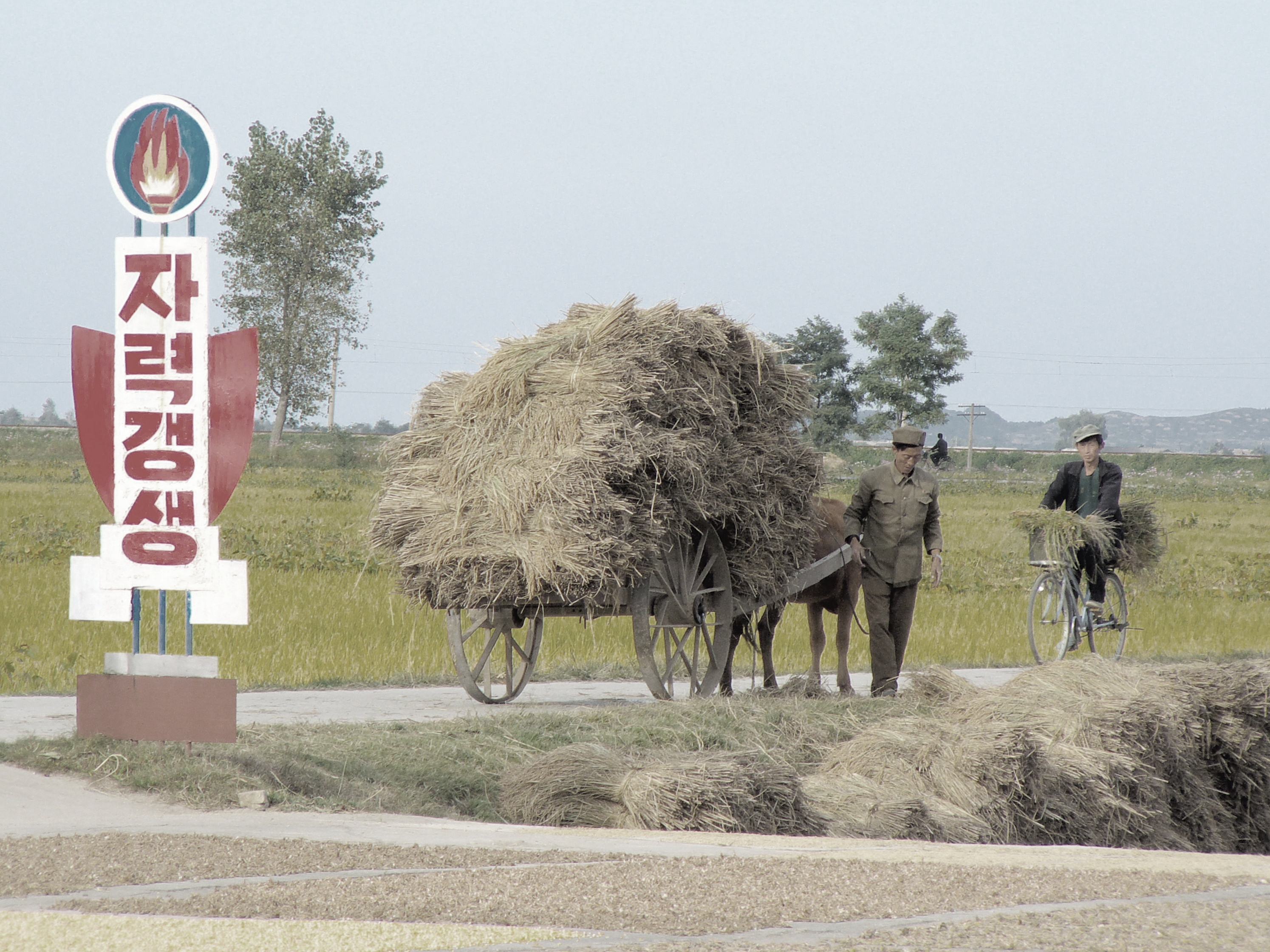 Situated on the outskirts of Wonsan, the Chonsam Cooperative Farm is possibly the only place in the country where foreign visitors are allowed into a working farm. While it is indeed a working farm, it does feel a little bit contrived.